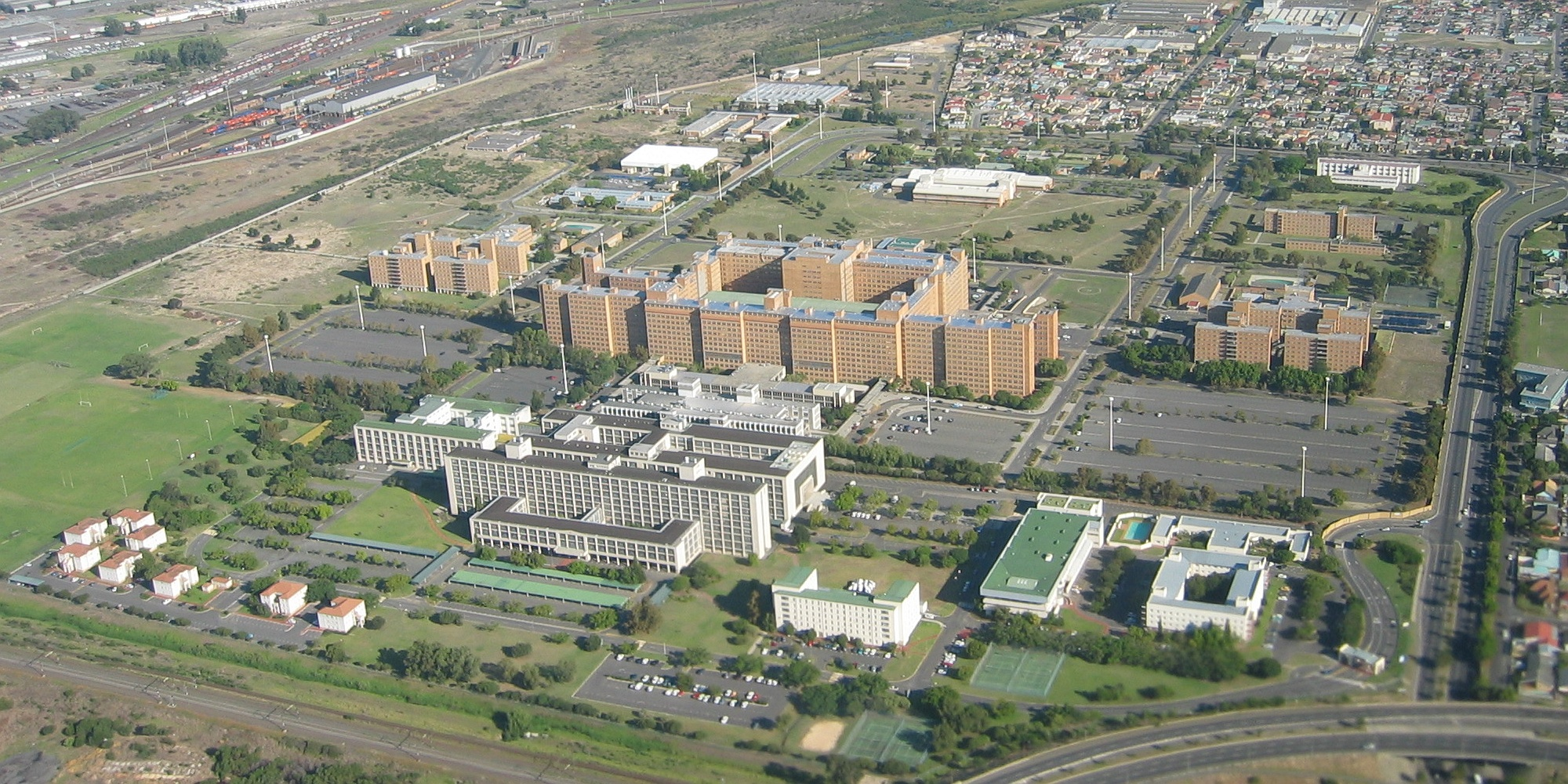 Stellenbosch University's Tygerberg medical campus viewed from the air.